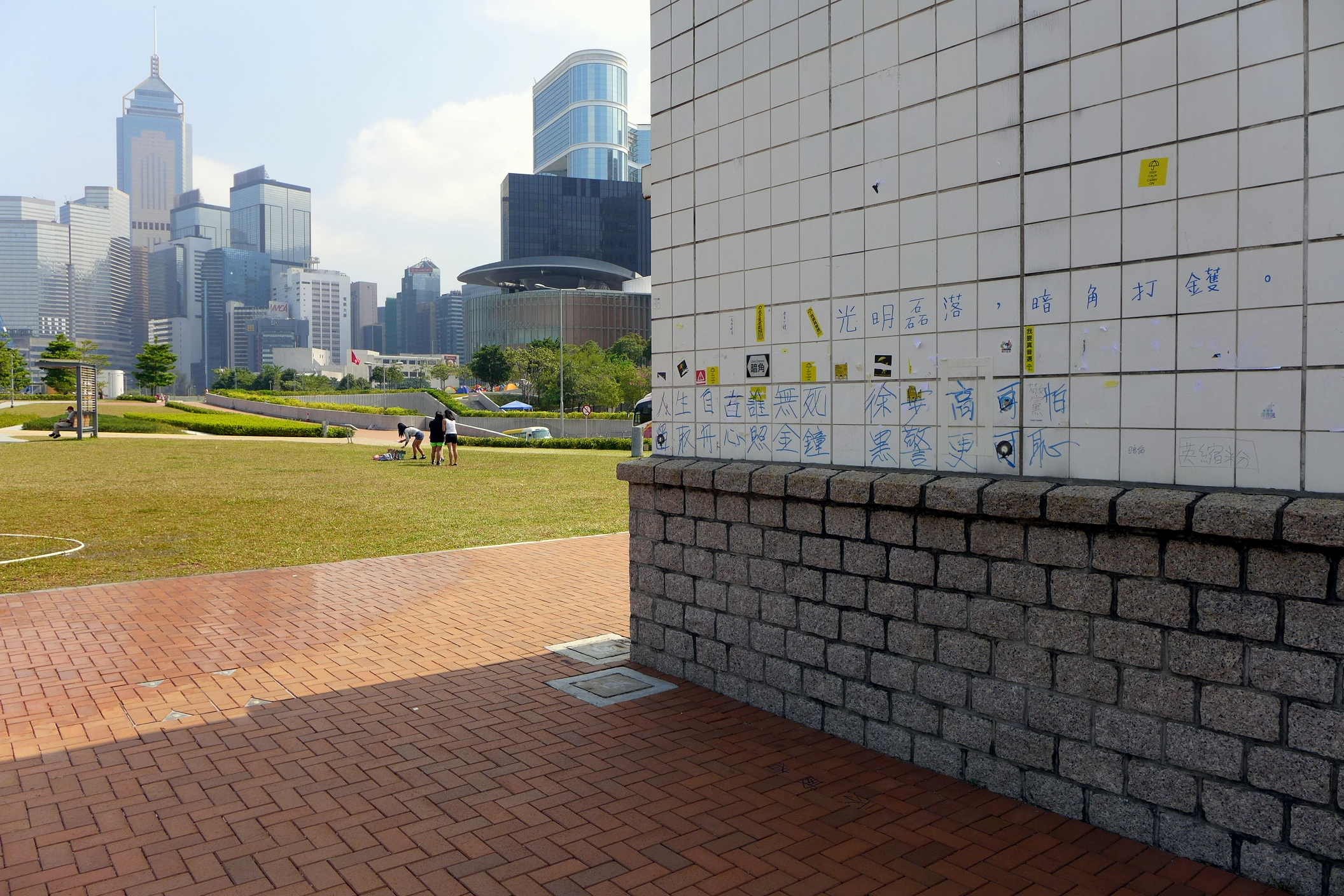 Dark Corner in Central Waterfront Promenade